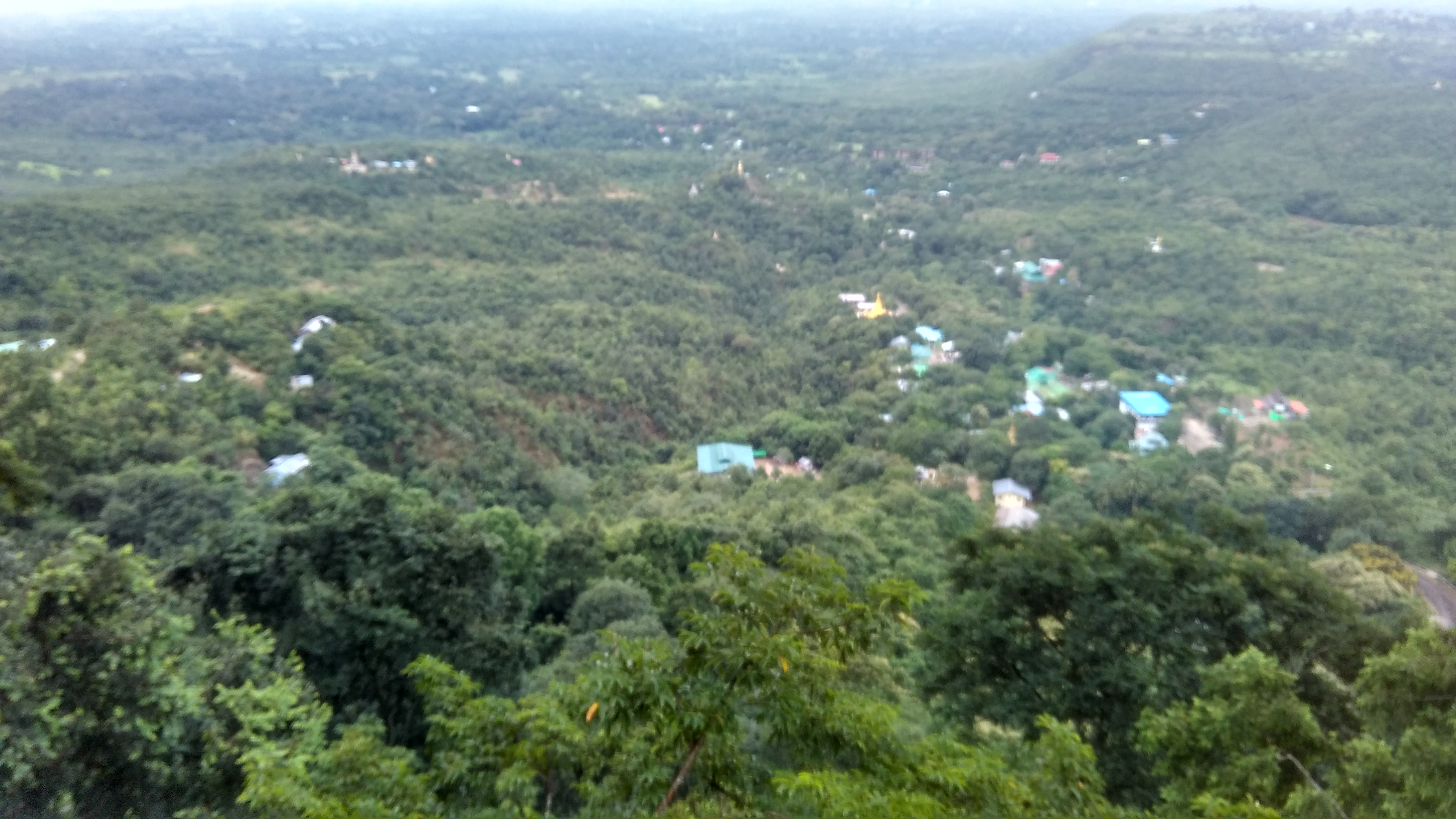 View from Popa မြန်မာဘာသာ: ပုပ္ပါးတောင်ပေါ်မှ မြင်ရသည့် မြင်ကွင်းတစ်ခု။